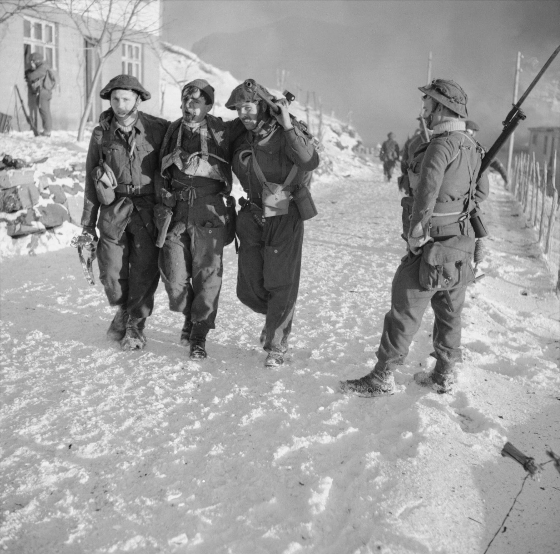 IWM caption : RAID ON VAAGSO, 27 DECEMBER 1941. A wounded British officer being helped to a dressing station. Possibly Lt D O'Flaherty of No 3 Cdo. Comment added by User:Rpage 6 April 2008 : The officer is (was) Captain O'Flaherty. He remained in the army and eventually became a Brigadier. He had been shot by a German sniper in both eyes. He lost one eye and wore a black eye patch thereafter. (The Queens Messenger for Ankara (on a chance meeting on a flight from Frankfurt to London) served under Brigadier O'Flaherty and confirmed his eye patch and how he lost his eye as well as the fact that O'Flaherty was now deceased). The soldier on the right is Derek Gordon Page - a commando. He subsequently left the commandos and served with the Gurkas in India fighting in Burma and eventually ending the war in Indonesia where he met a Dutch prisoner of war who he subsequently married. He left the army with the rank of Captain. He was my father (I am his son Richard Page). We found this photo in a book on the Vagsoy raid (The Vaagsoy Raid by Joseph H Devins jr. published 1968) and he remembered it. Derek Page died in February 1979.